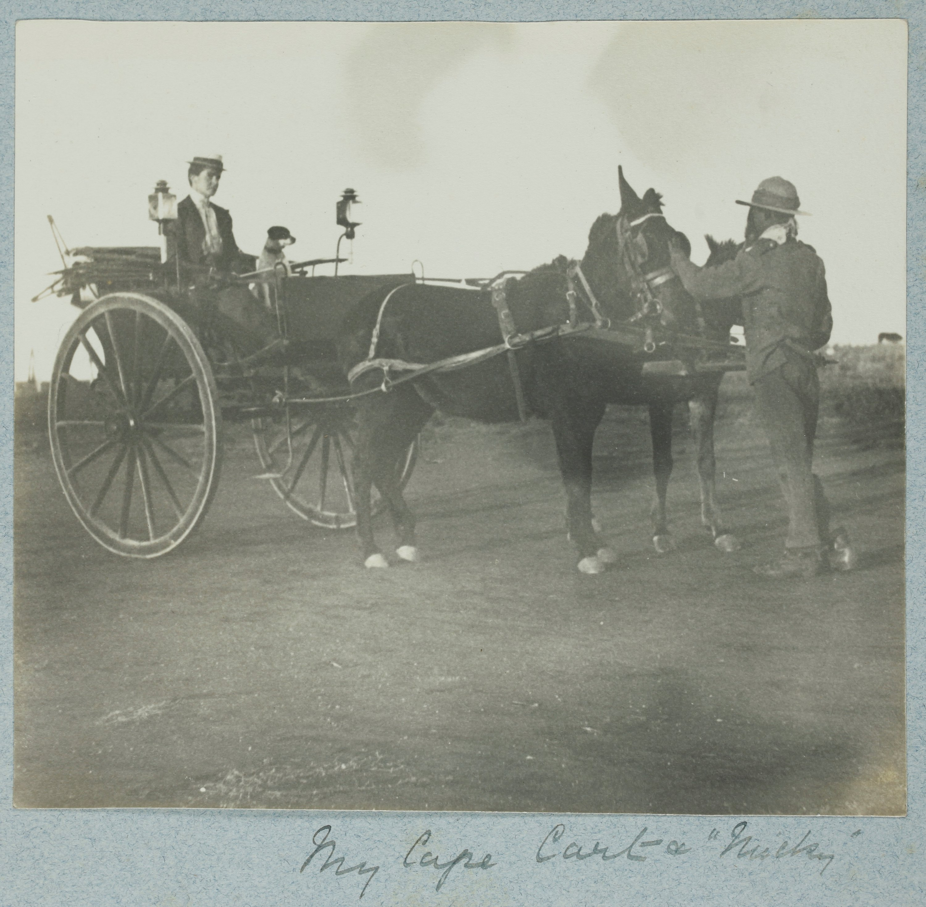 Sister Mabel Ashton Warner sitting in a cape cart (a two-wheeled four-seater carriage) that is being pulled by two horses. She sits with a small dog. Kimberley, Northern Cape, South Africa, circa 1902